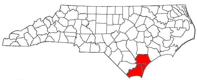 Locator map of the Wilmington Metropolitan Statistical Area in the southeastern part of the U.S. state of North Carolina.